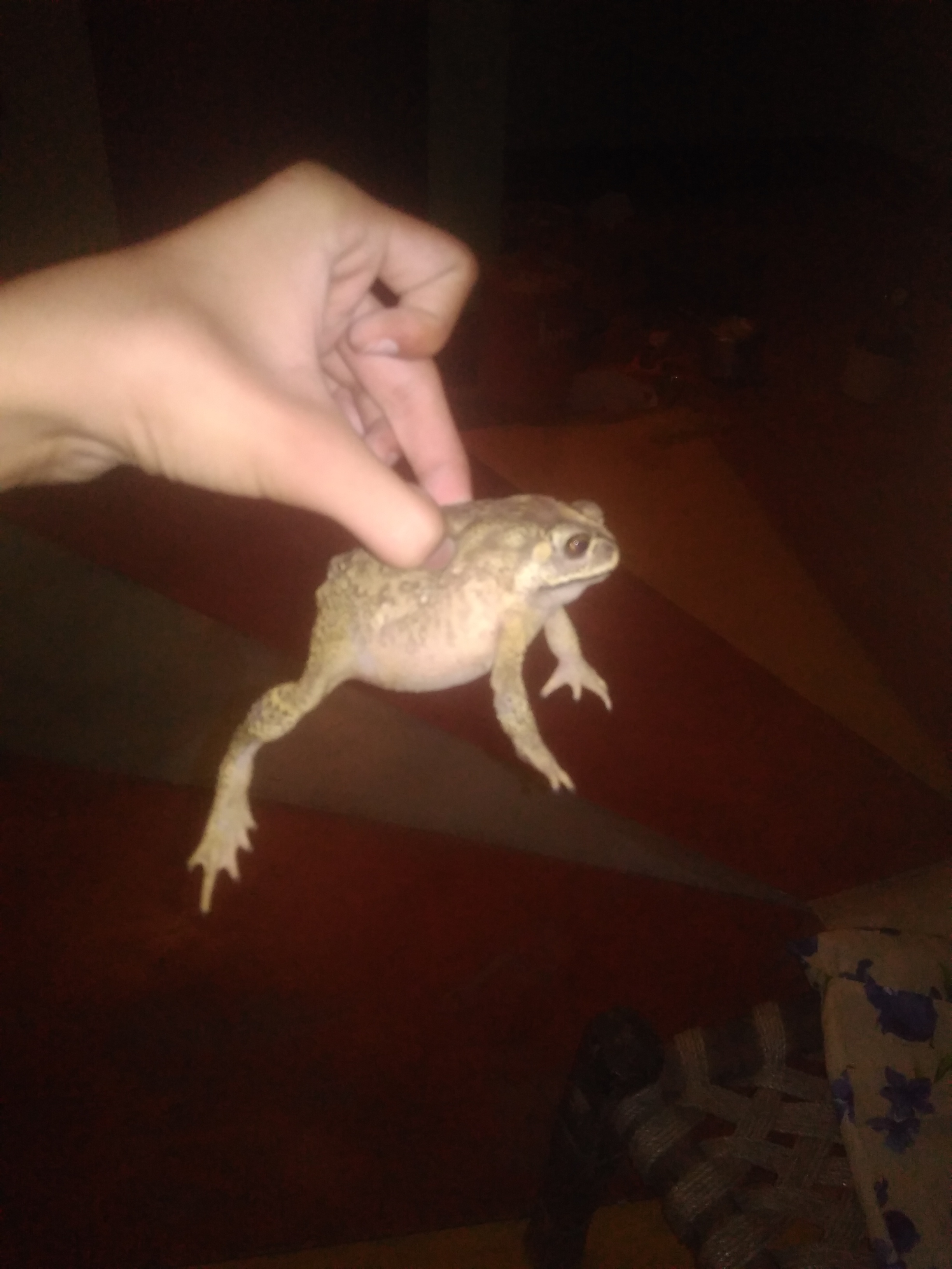 Bufo Stomaticus can prove to be pests even in parts far away from the Indus Valley.